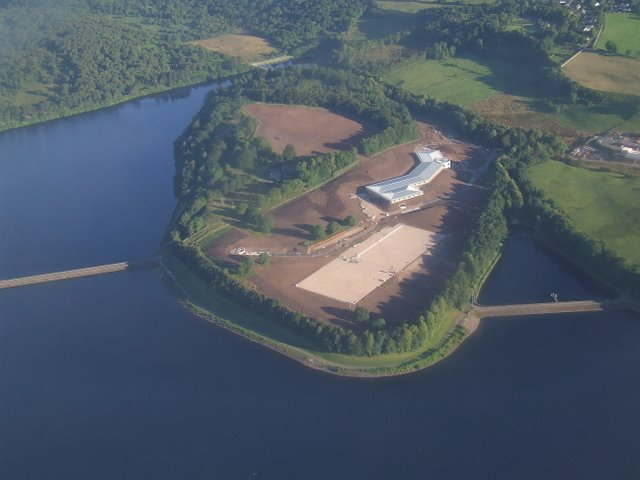 Milngavie reservoirs and waterworks Craigmaddie is in the foreground, Mugdock is to the left. The new waterworks are in the centre. Viewed from a Glasgow Airport bound Boeing 747.